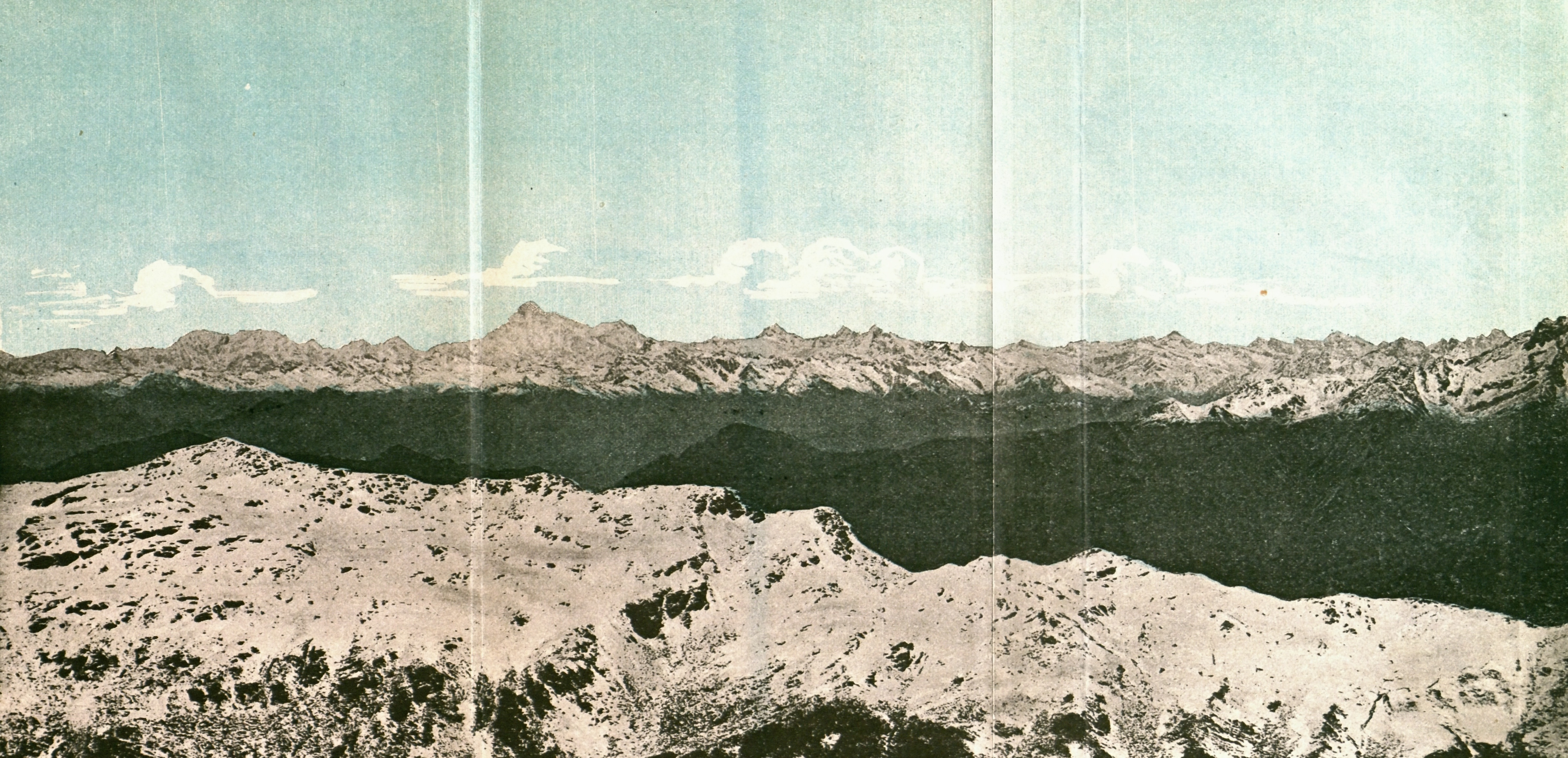 Gaurisankar and the Nepal Alps from the south spur of the Kanchenjunga (near the Chumbab La) seen from the east